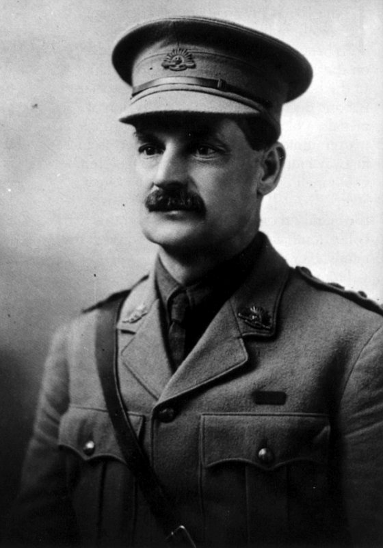 Portrait of Brigadier General John G. Paton, commander of the Australian 7th Brigade during the First World War.